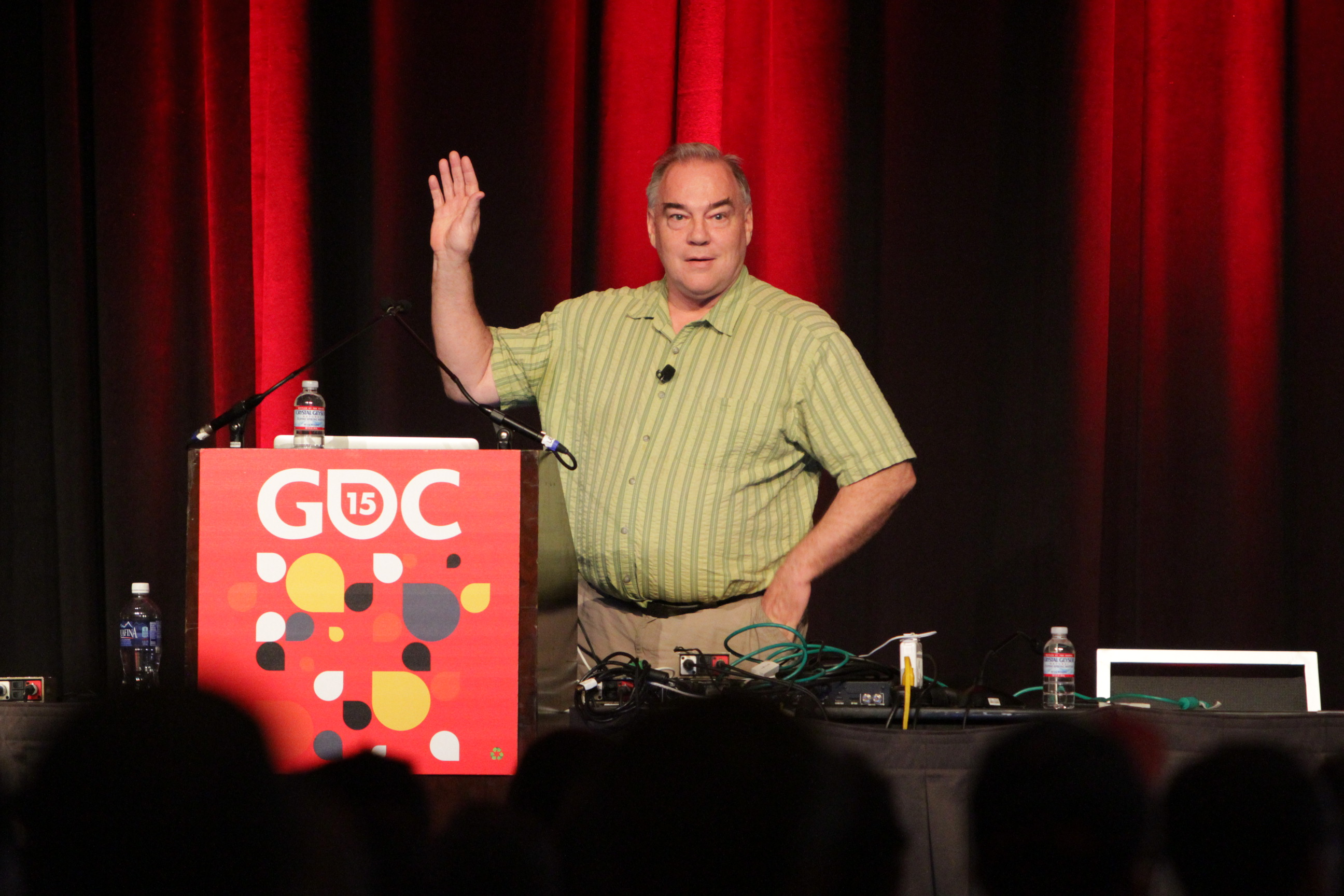 Classic Game Postmortem: Adventure Warren Robinett | Game Designer & Computer Scientist, Independent Location: Room 135, North Hall Date: Thursday, March 5 Time: 4:00pm - 5:00pm